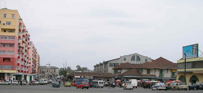 Tsotne Dadiani market in the Black Sea port city of Poti, Georgia